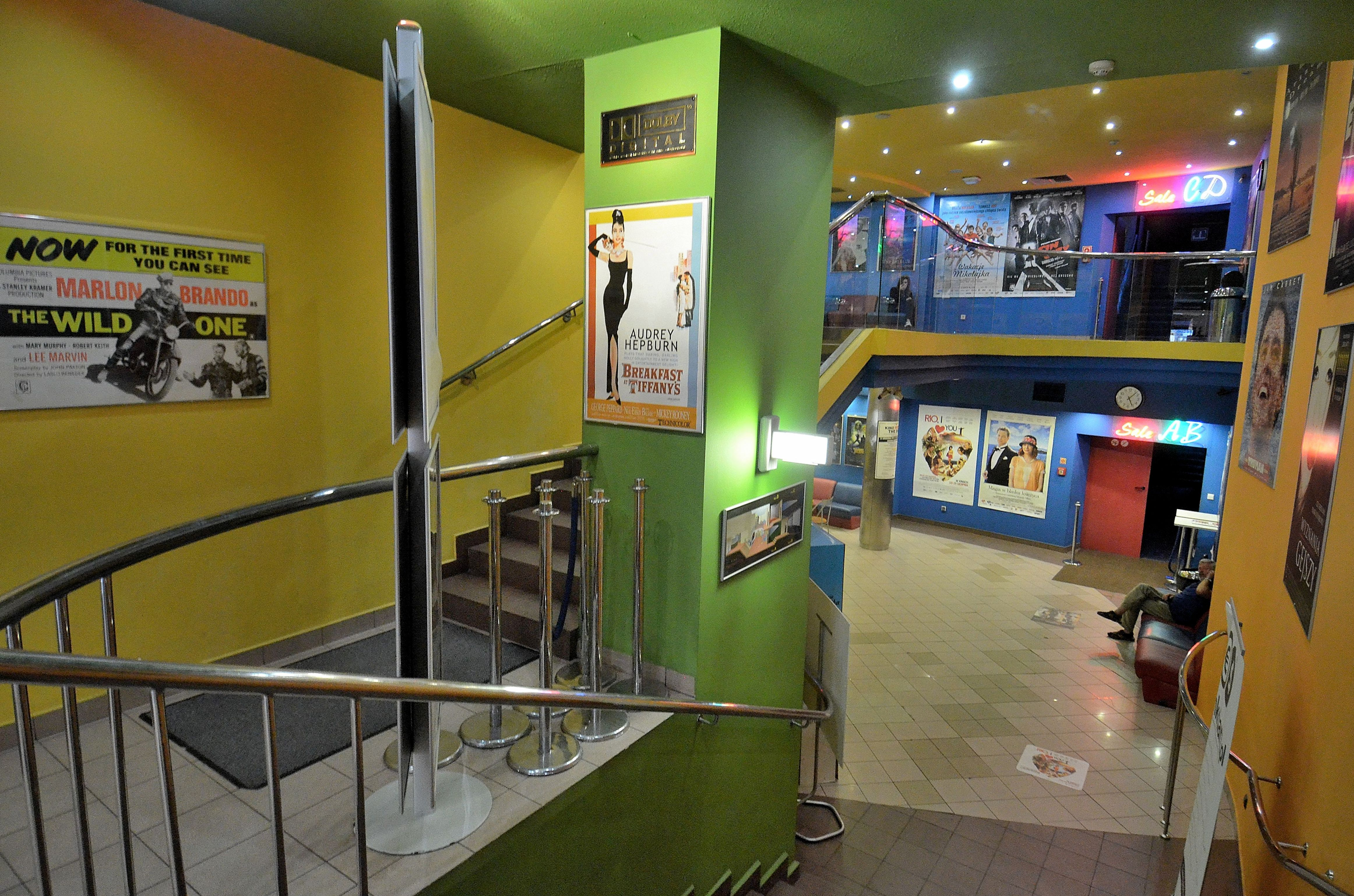 Femina Cinema in Warsaw